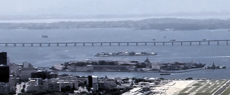 Detail of Guanabara Bay, with the historic city centre to the left, Santos Dumont Airport at lower right, Ilha Fiscal (right) and Ilha das Cobras (lower center), Ilha das Enxadas (center) and the Rio de Janeiro–Niteroí Bridge and Ilha do Governador beyond that.